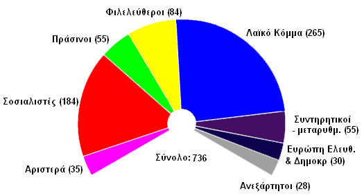 European Parliament after 2009 elections